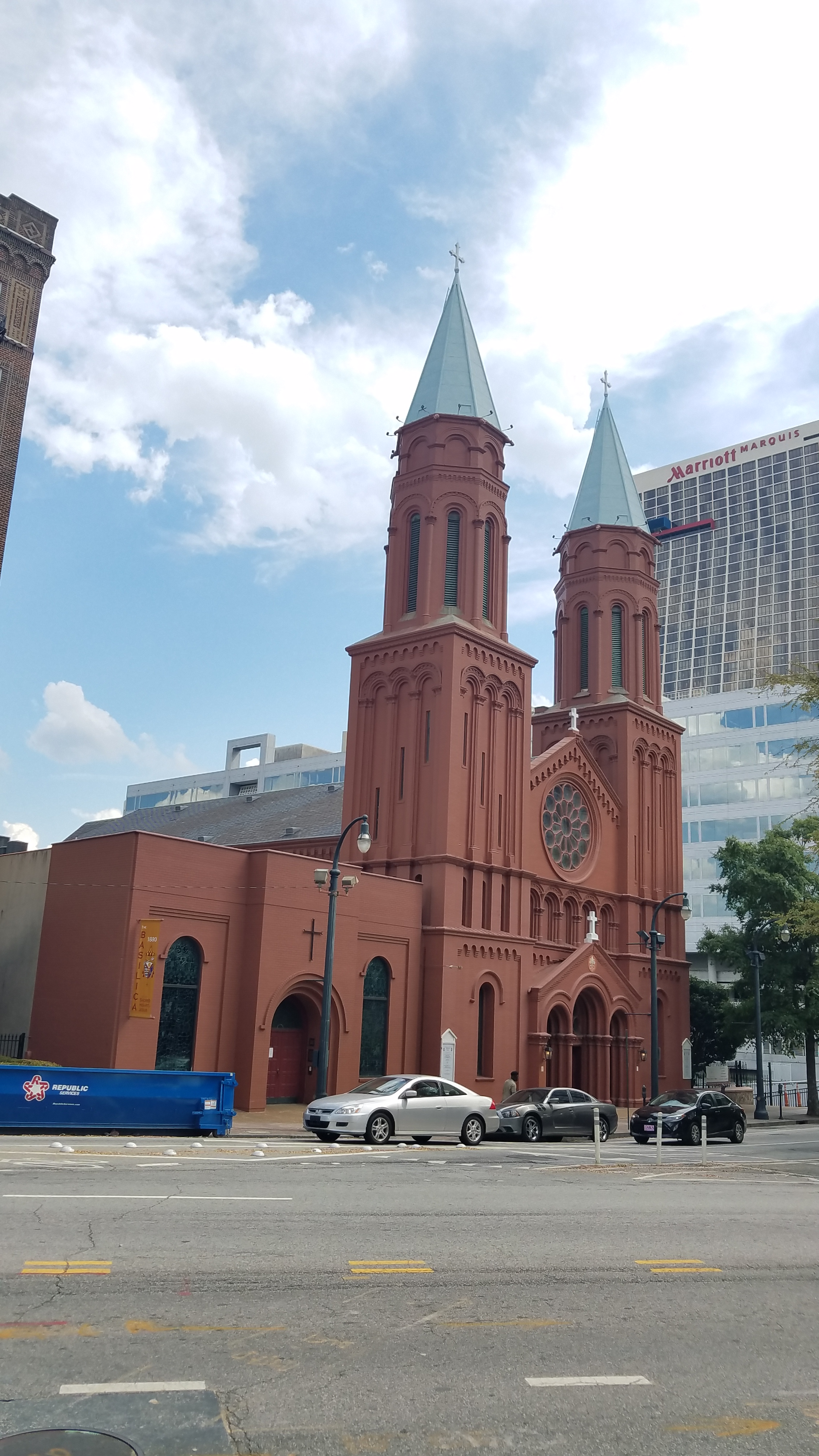 Basilica of the Sacred Heart of Jesus, a Roman Catholic church in Atlanta, Georgia, with the Atlanta Marriott Marquis in the background.